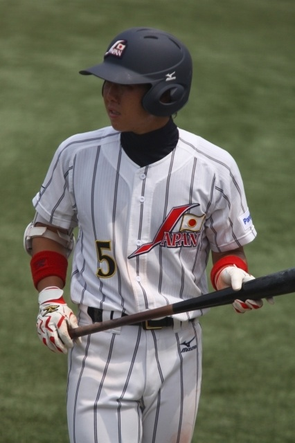 Daichi Suzuki, infielder of the Japan national baseball team, at Meiji Jingu Stadium.